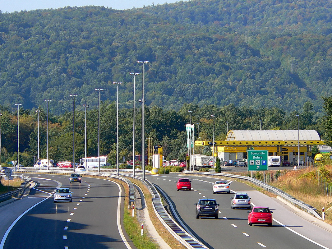 Dobra rest area, Croatia (A1 motorway)